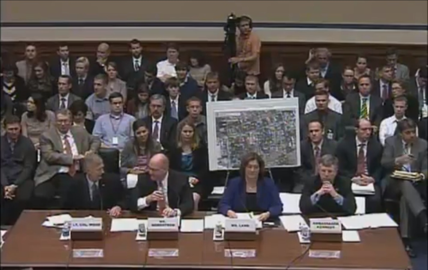 The image shows the four witnesses called to testify at the Oct. 10, 2012 hearing called by the House Committee on Oversight and Government Reform. The witnesses (l to r) are Lt. Col. Andrew Wood, Utah National Guard, U.S. Army; Eric Nordstrom, Regional Security Officer, U.S. Department of State; Charlene Lamb, Deputy Assistant Secretary for International Programs, Bureau of Diplomatic Security, U.S. Department of State; and Ambassador Patrick Kennedy, Under Secretary for Management, U.S. Department of State. An image of the U.S. compound can be seen behind Ms. Lamb.